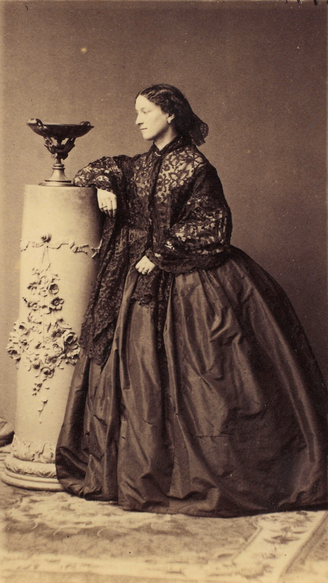 Jeanne Villepreux-Power, photographed in 1861 by André-Adolphe-Eugène Disdéri